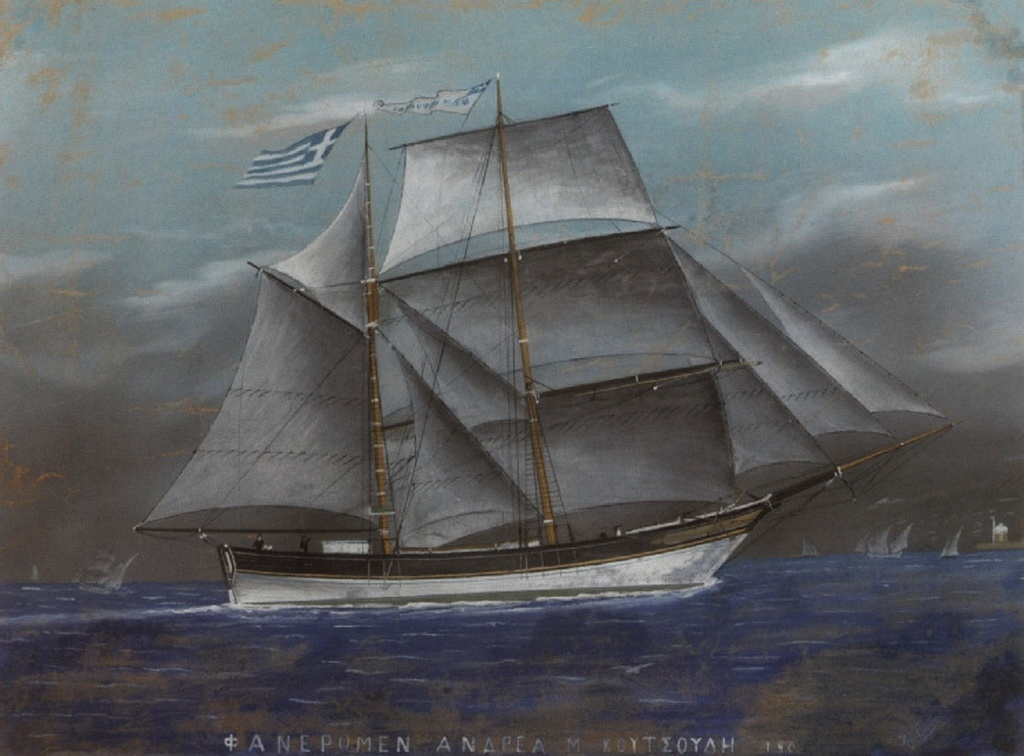 Sailling ship Faneromeni, 1909